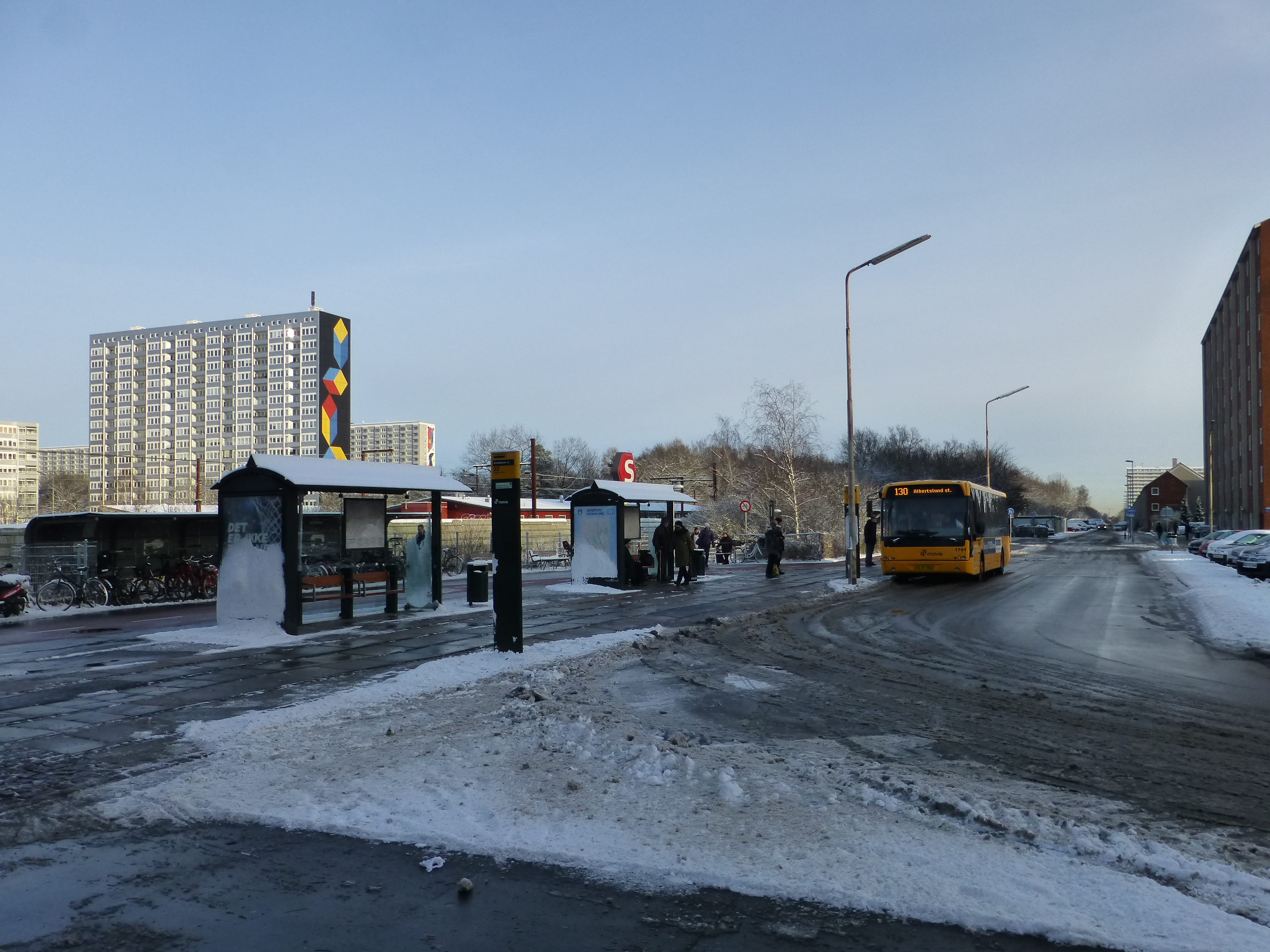 Brøndbyøster Station, a S-train station on Høje Taastrup-banen between Copenhagen and Høje Taastrup.